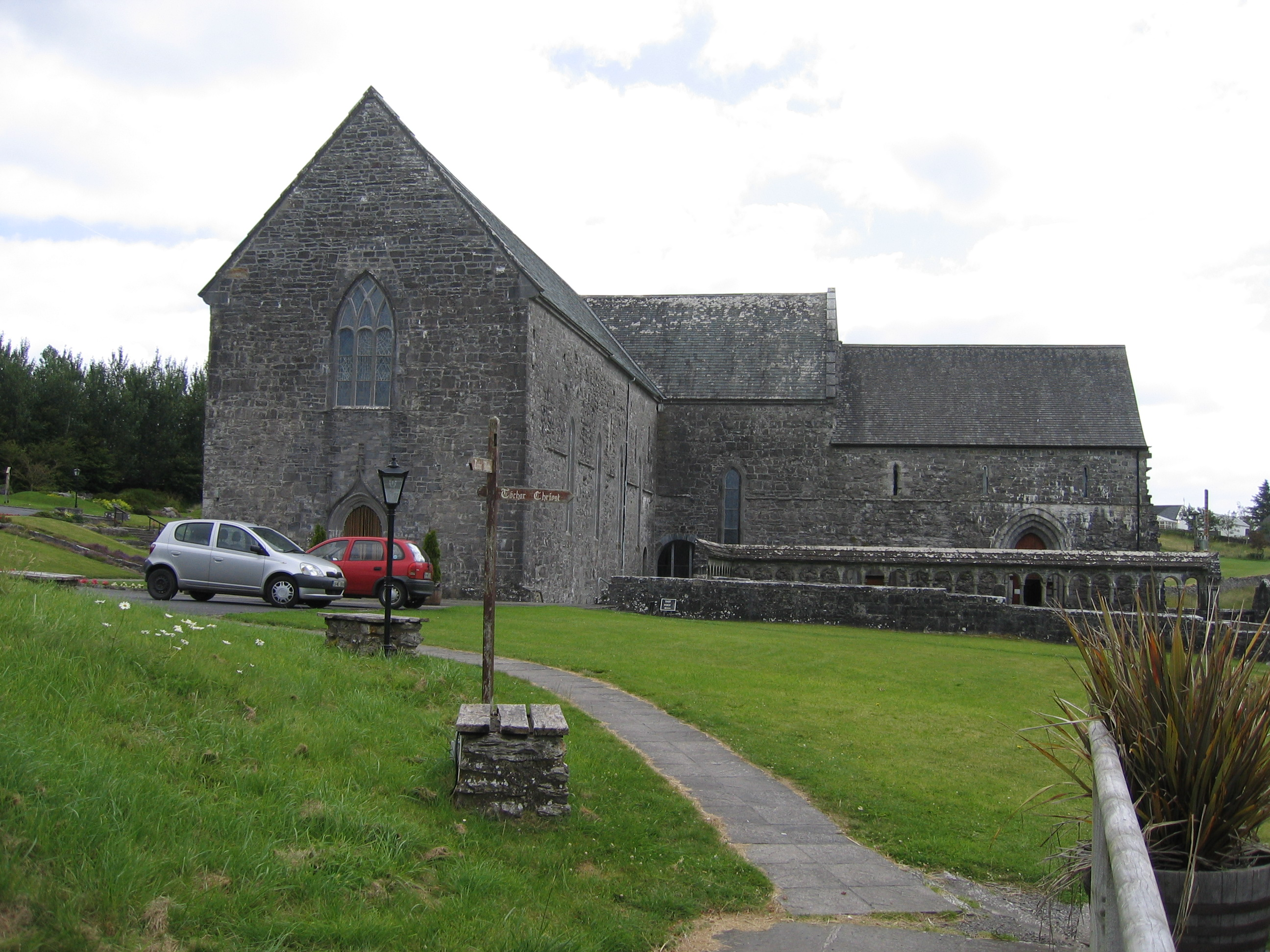 Ballintubber Abbey in Co Mayo, Ireland